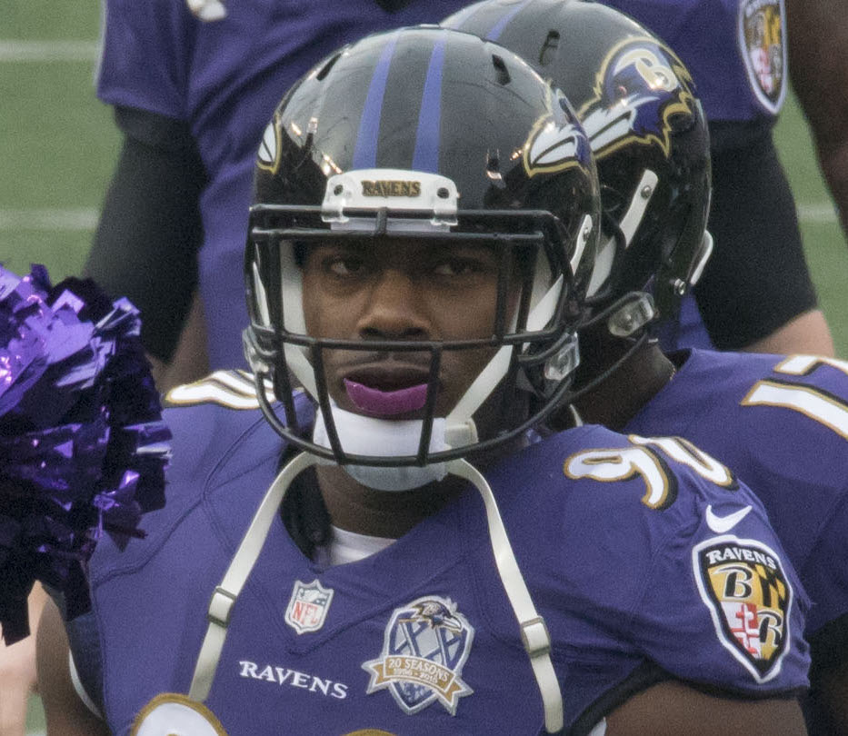 Baltimore Ravens linebackers, Za'Darius Smith, playing against the Seattle Seahawks on December 13, 2015.